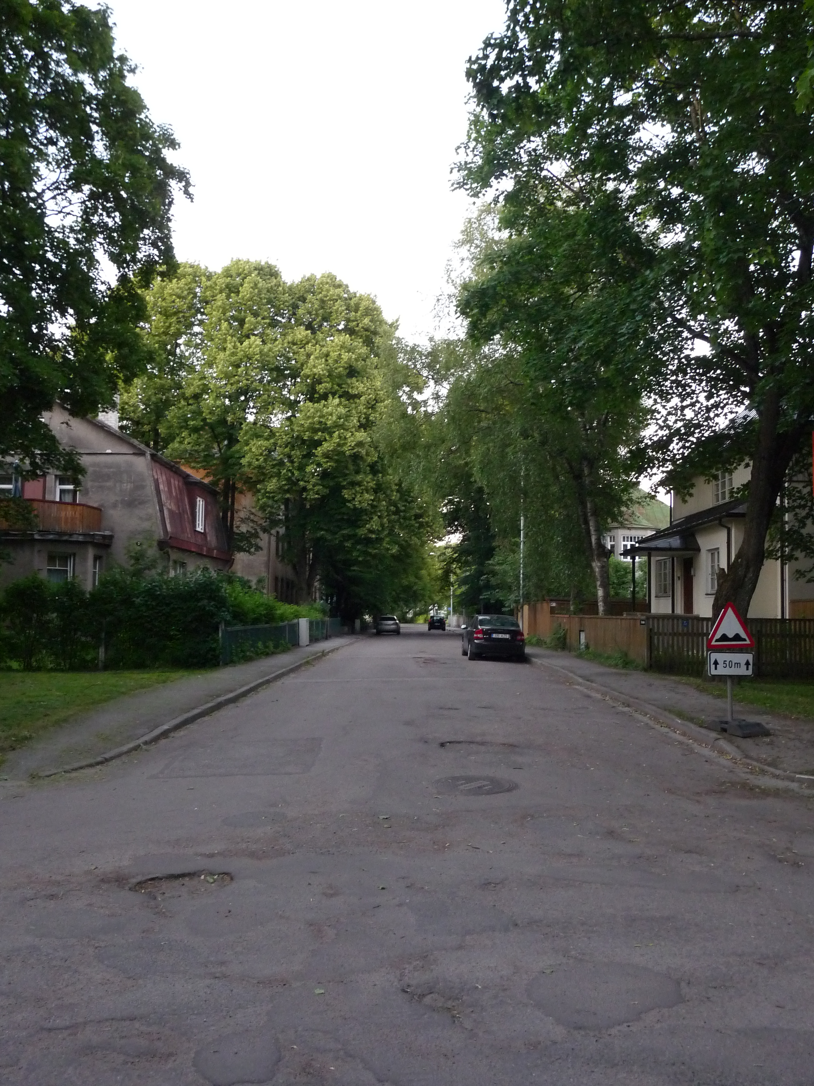 Puhke street in Tallinn, Estonia